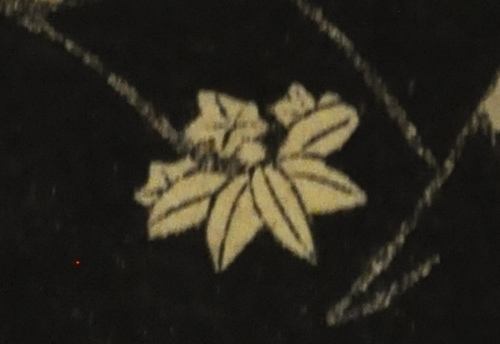 detail from ukiyo-e print in ROM